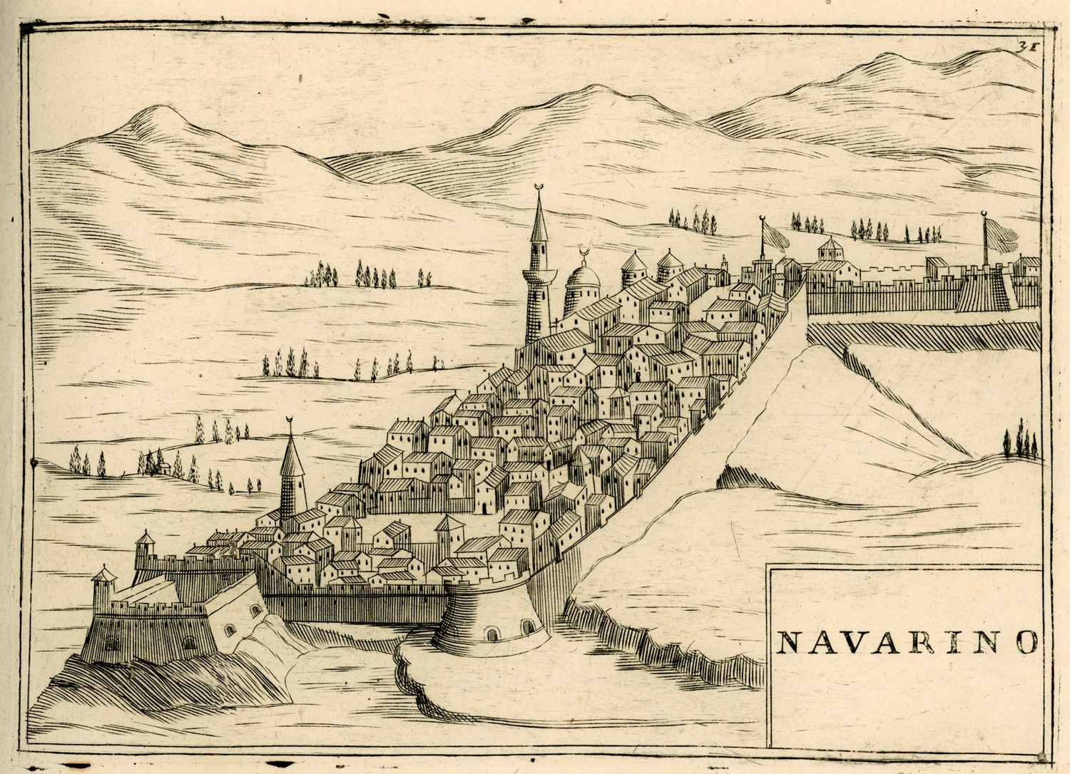 Vincenzo Coronelli - Repubblica di Venezia p. IV. Citta, Fortezze, ed altri Luoghi principali dell' Albania, Epiro e Livadia, e particolarmente i posseduti da Veneti descritti e delineati dal p. Coronelli, Venice, 1688.